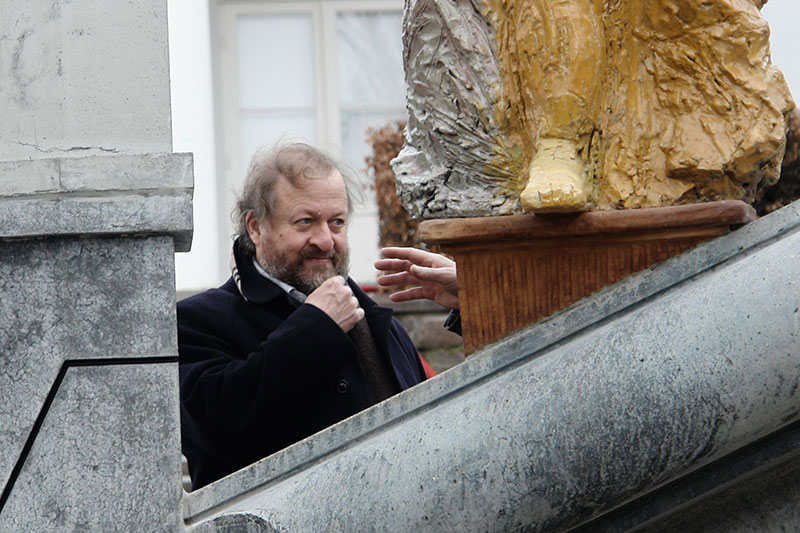 Bjørn Nørgaard ved skulpuren Menneskmuren (Horsens) 2010